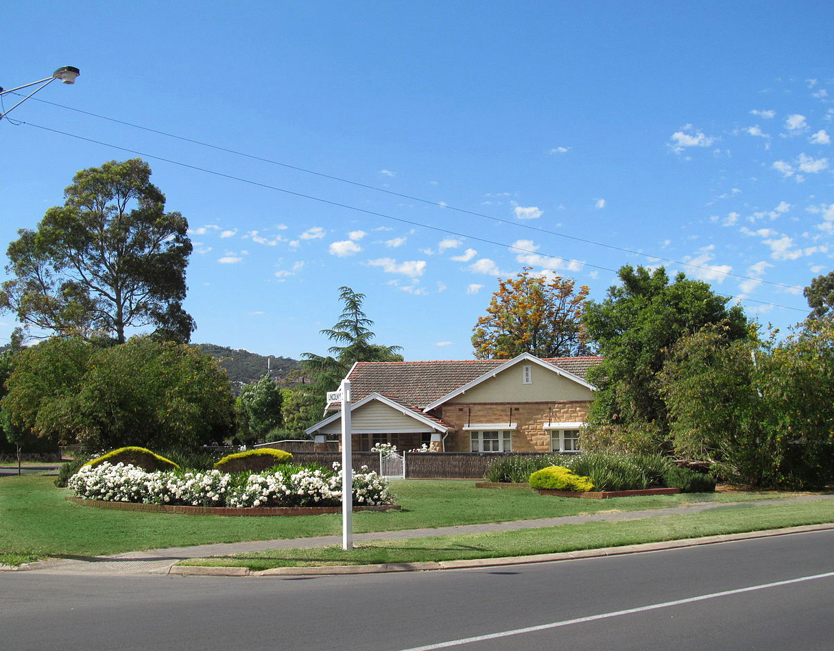 House on Salisbury Crescent at Lincoln Avenue, Colonel Light Gardens, South Australia